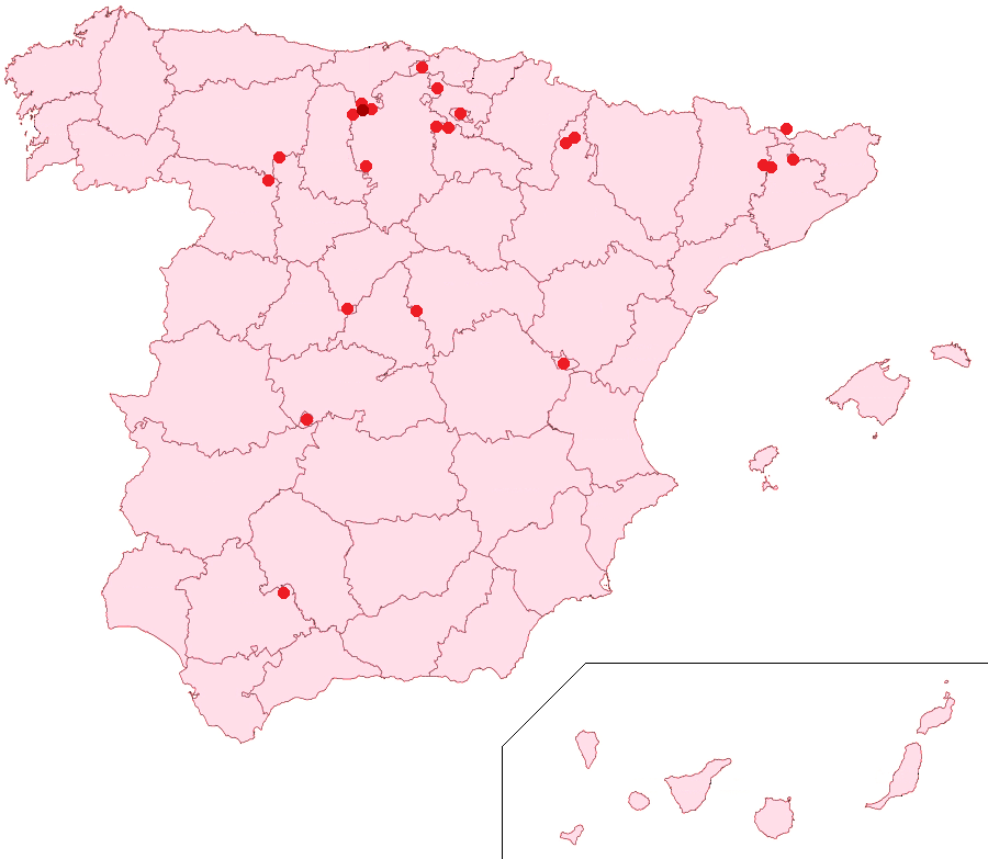 Enclaves (administrative detached parts) in Spain: Berzosilla, Cezura, Dehesa de la Cepeda, Treviño, Villar, Lastrilla, Les Llosses, Mayorga de Campos, Orduña, Petilla de Aragón y Bastanes, Pinós, Roales de Campos y Quintanilla del Molar, La Rebolleda, Rincón de Ademuz, Rincón de Anchuras, Sajuela y El Ternero, Torrejón del Rey, Valle de Villaverde, Valielles,Villodrigo.